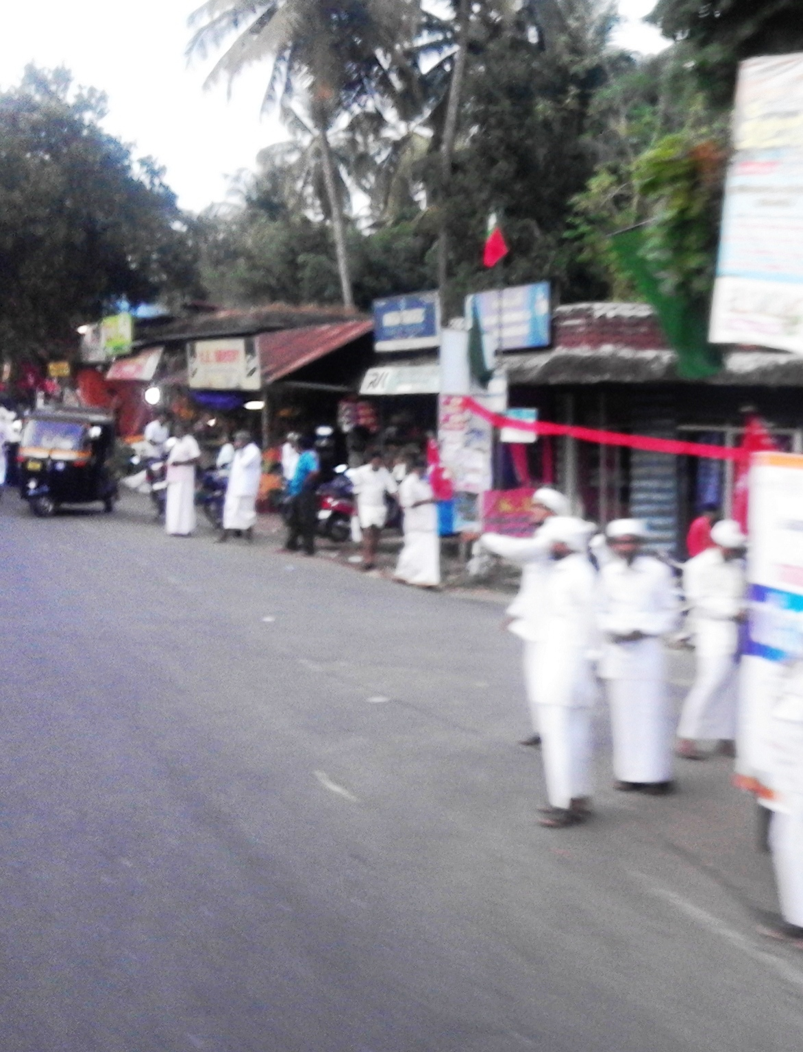 Pookkotoor, Malappuram, India.